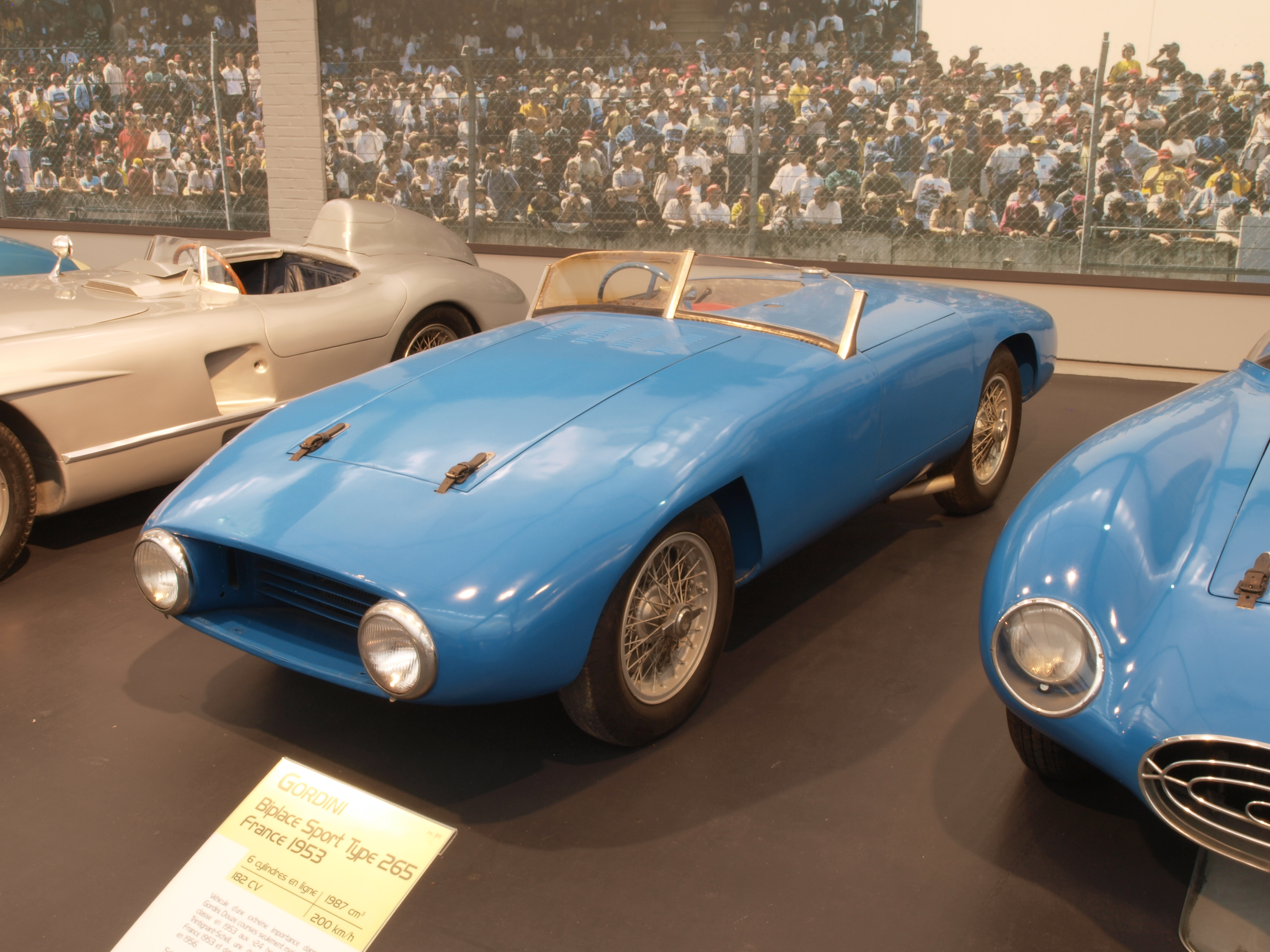 Photographed at the Cité de l’Automobile, France. OLYMPUS DIGITAL CAMERA